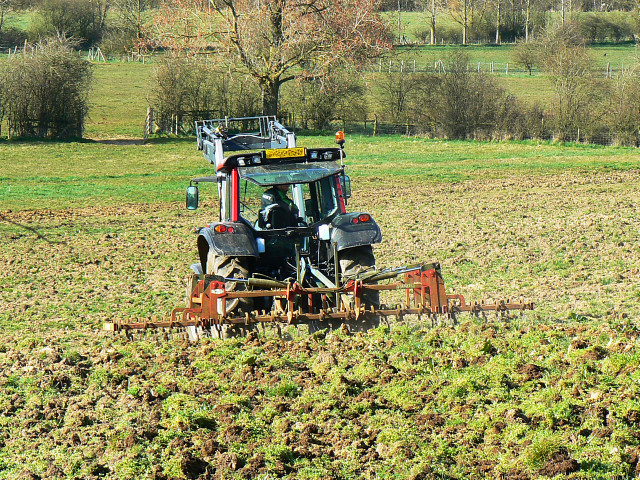 Cultivating in progress, near Park View Farm, Callow Hill The tractor is fitted with a spring tine cultivator. These implements are used for light cultivations, primarily to stir the top couple of inches of soil especially in the spring when the surface is dry but wet underneath. Many thanks to Michael Trolove for the technical advice.